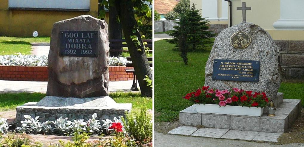 Monuments in Dobra.